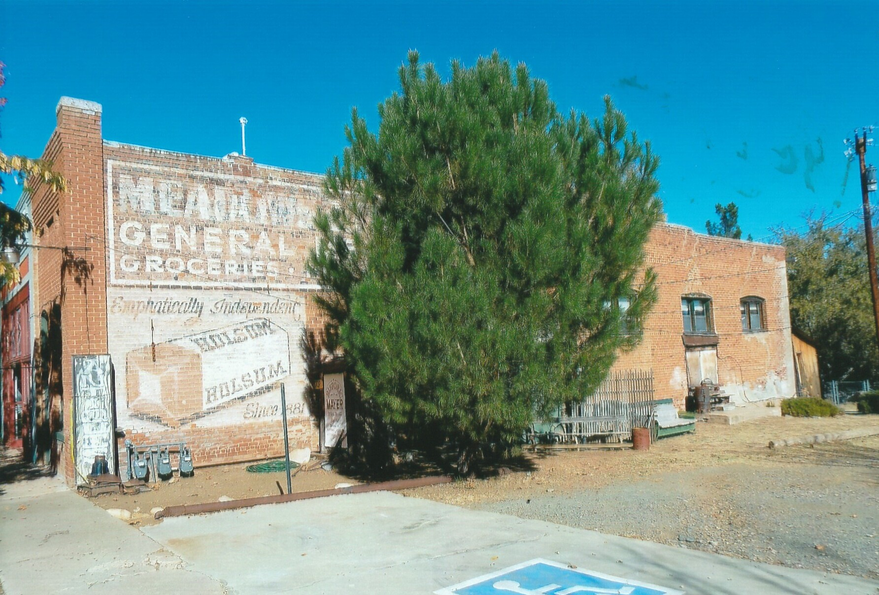 Historic Mayer General Market built in 1902 in Mayer, Az